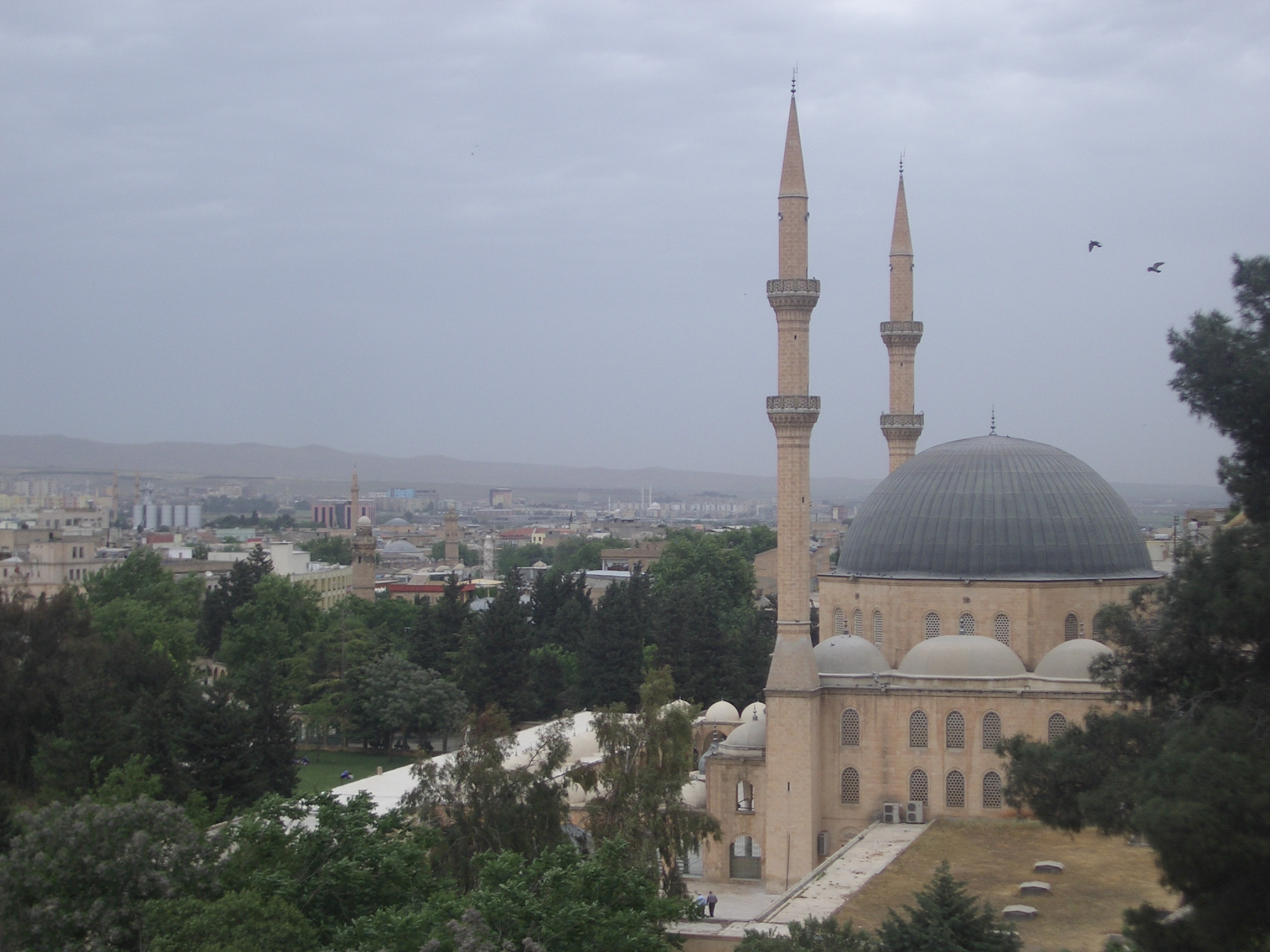 New Dergah Mosque in Şanlıurfa, Turkey.